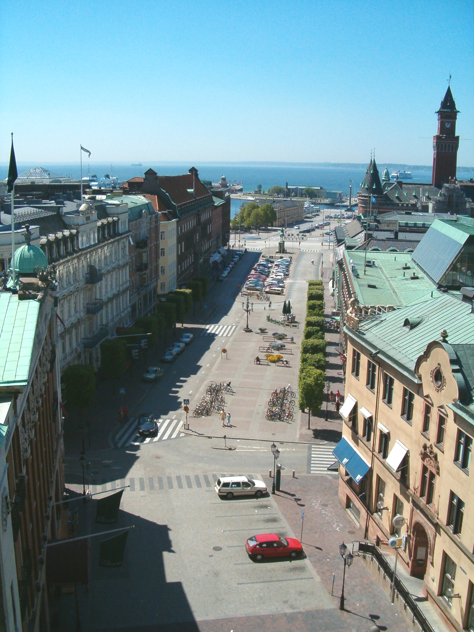 View from the Terrace Stairs in Helsingborg, Sweden.